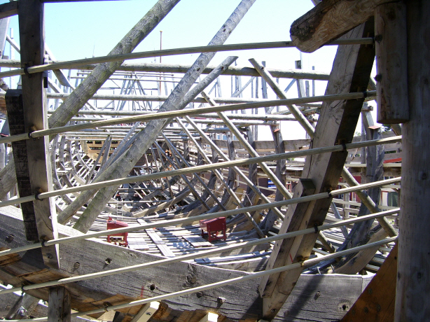 Construction of the "Zeven Provinciën" in Lelystad